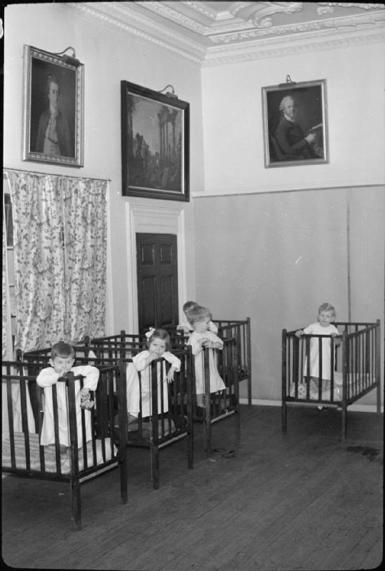 Life at the Tapley Park Children's Home (the Chaim Weizmann Home), Instow, Devon, October 1942 Young children stand up in their cots just before it is time to go to sleep in one of the dormitories at the Chaim Weizmann Home. The paintings visible on the wall indicate that Tapley Park was an impressive stately home before becoming a children's home.